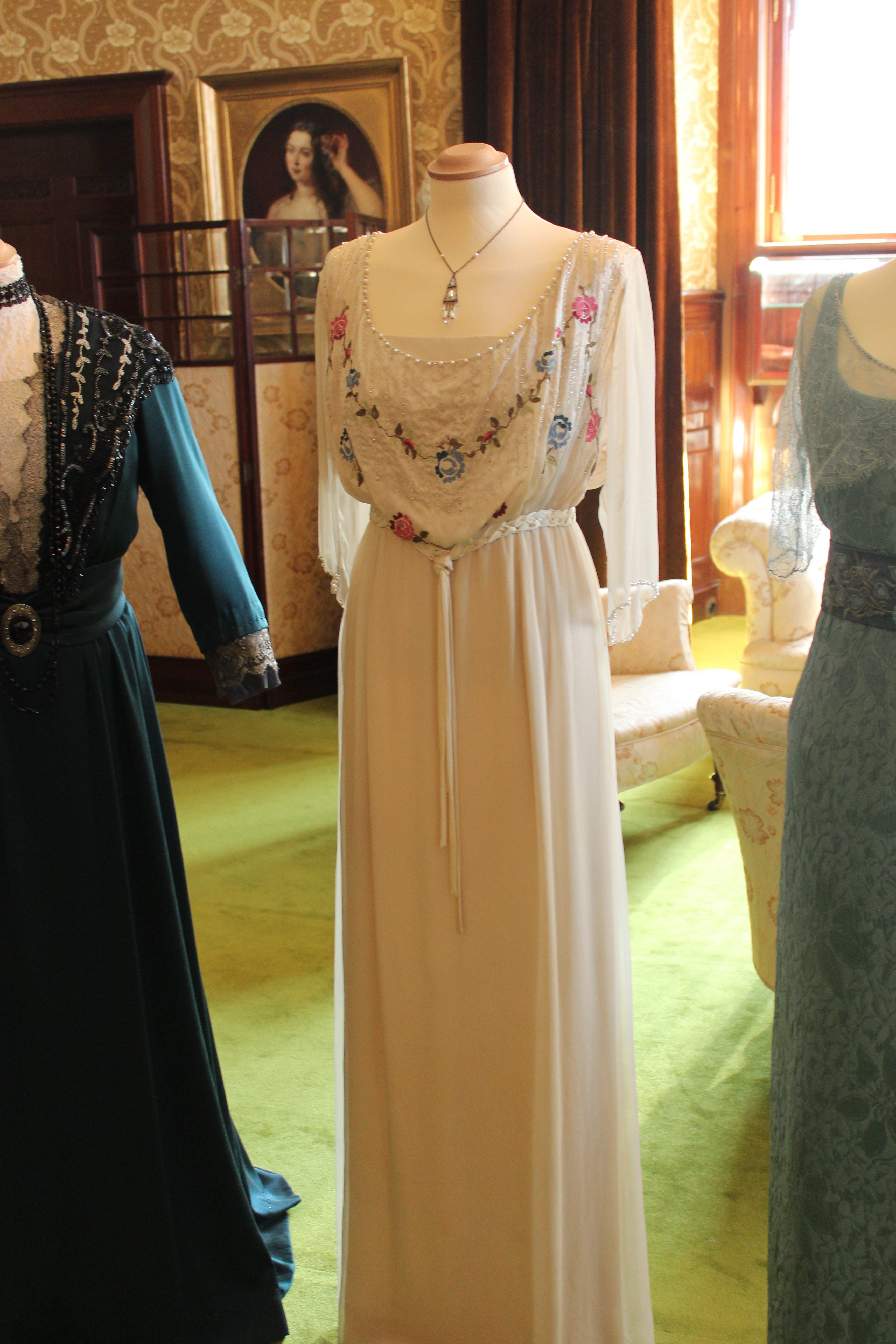 Dress probably worn by Lady Mary Crawley (played by Michelle Dockery)